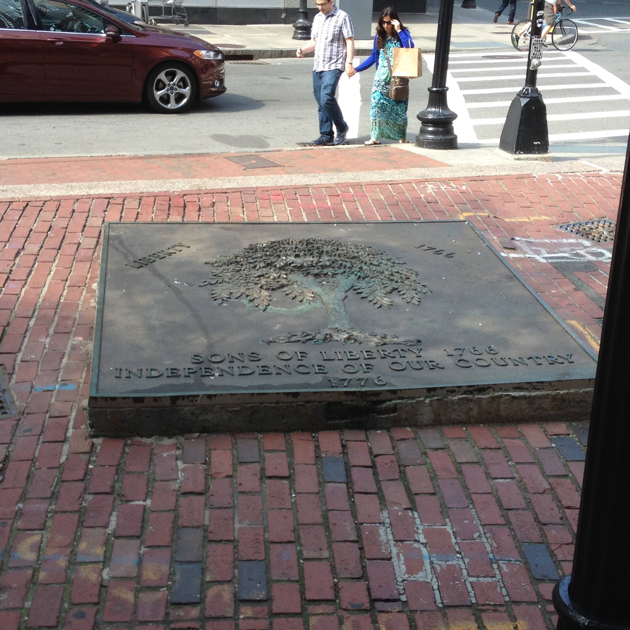 Liberty Tree site, Boston MA, USA